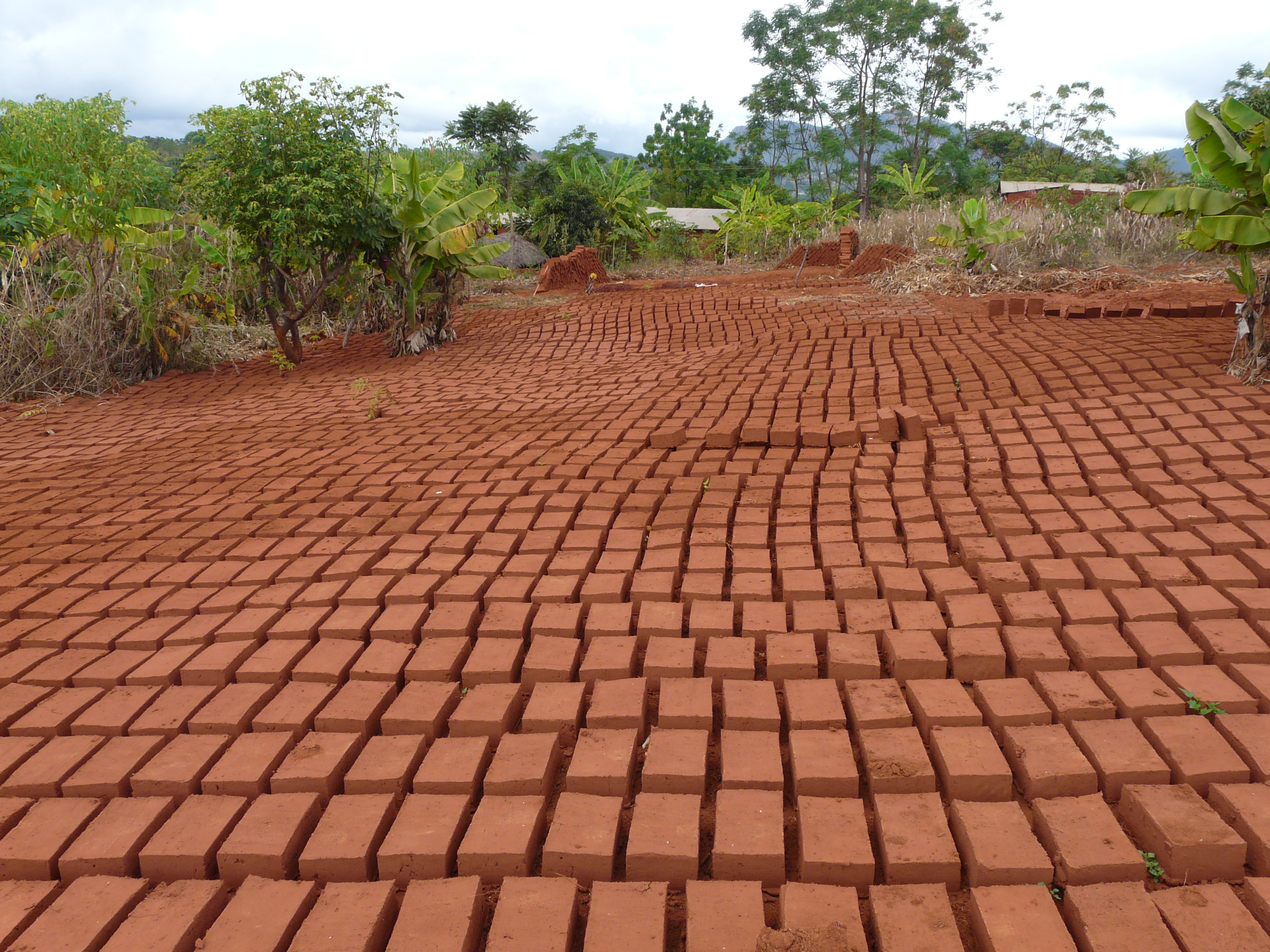 Brick production in Songea, the capital of Ruvuma Region in southern Tanzania